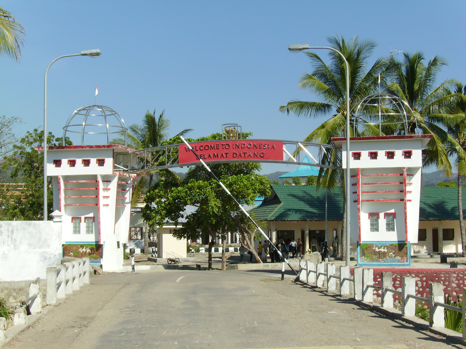 Batugade border post, indonesian side